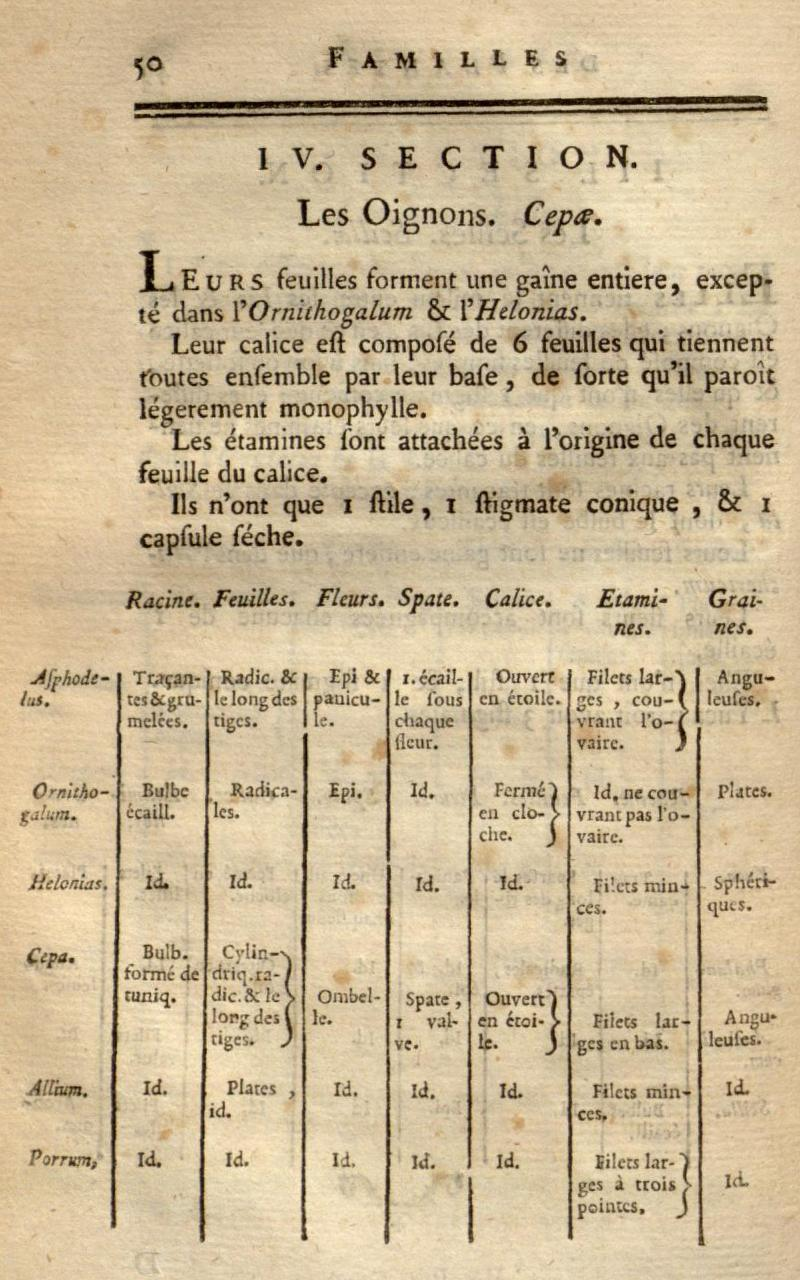 Cepae, by Michel Adanson, Familles des plantes 1763, p. 50